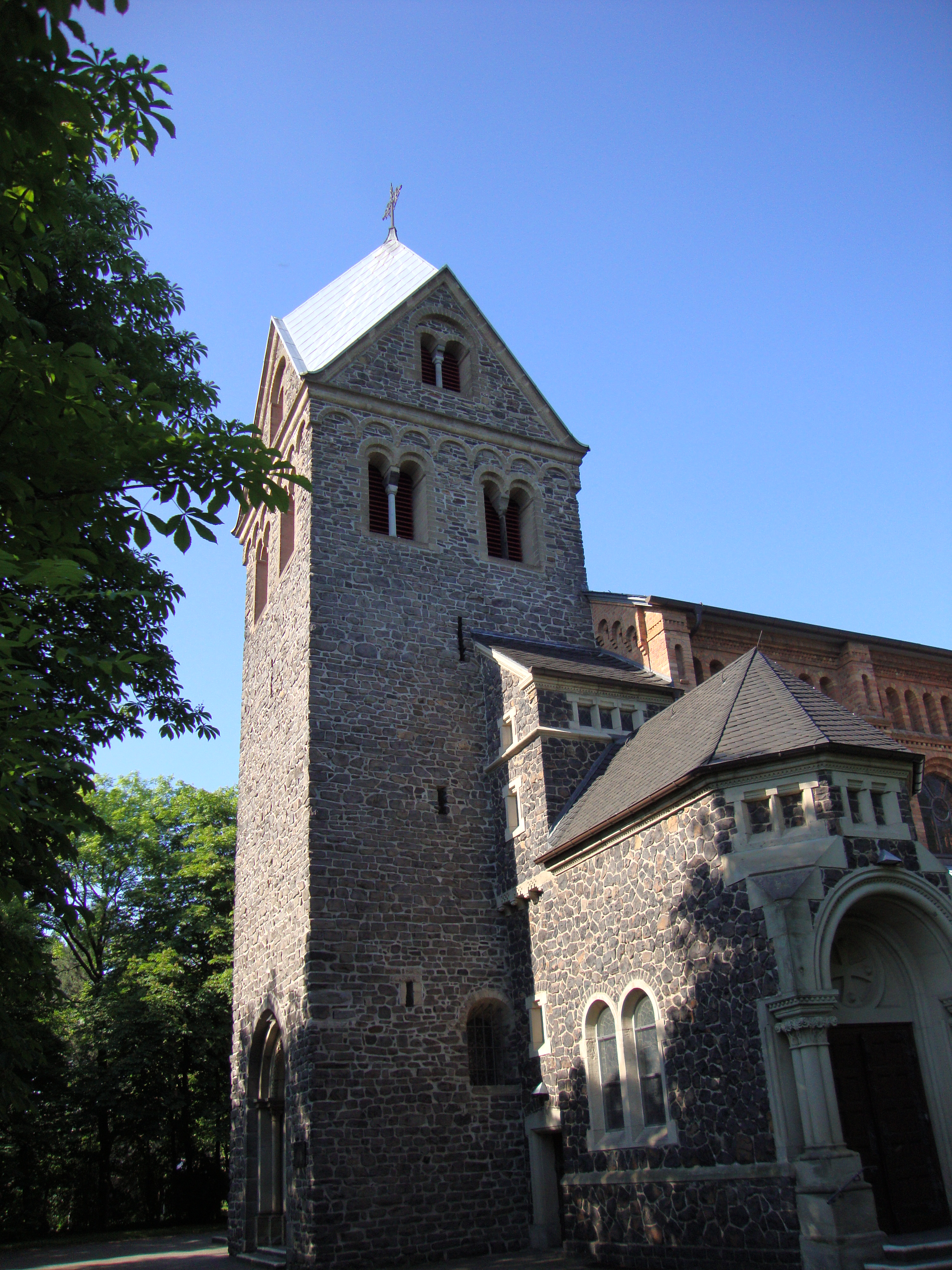 Catholic church St Cäcilia in Bonn-Oberkassel